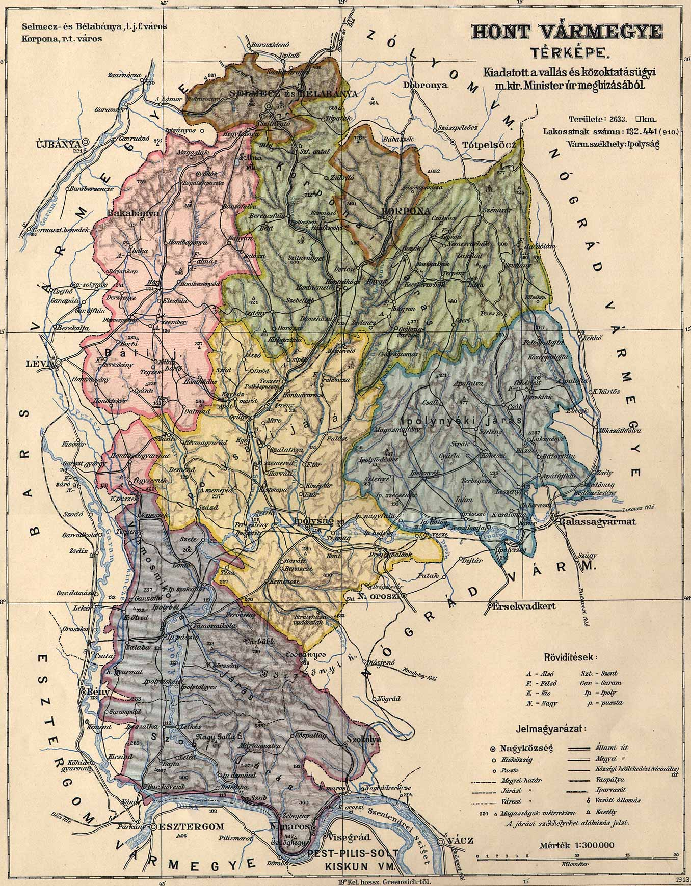 Administrative map of the county of Hont in the Kingdom of Hungary from 1913. Borders of Vámosmikola district, organized in 1907, were added in the last minute with limited accuracy.